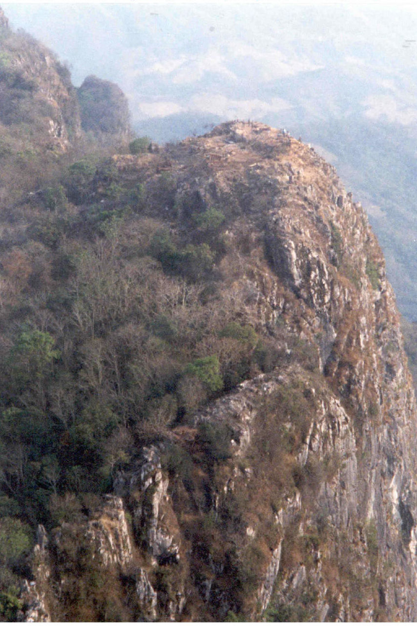 This photograph was taken by USAF Lieutenant Colonel Jeannie Schiff in 1994, as part of the Lima Site 85 Recovery Effort. This photograph shows an aerial of Phou Pha Thi.